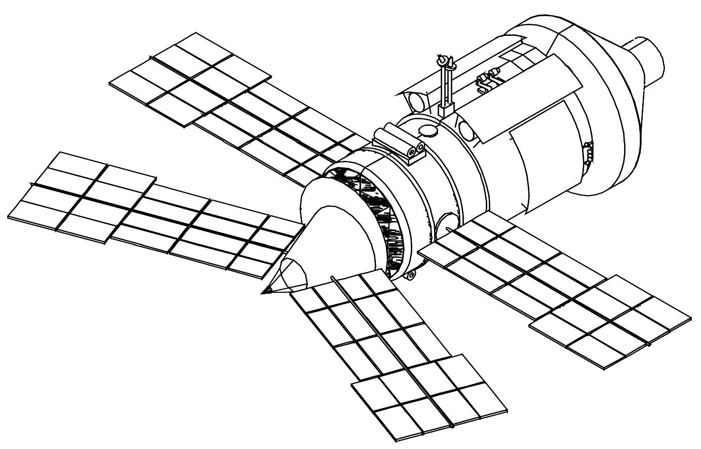 Spektr, the science module that was added to Mir in May 1995. The module is shown here with solar arrays deployed, a configuration finally achieved on July 14, 1995.